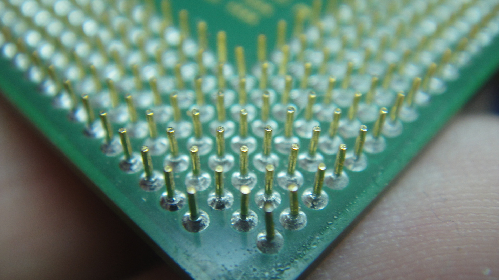 CPU PINS